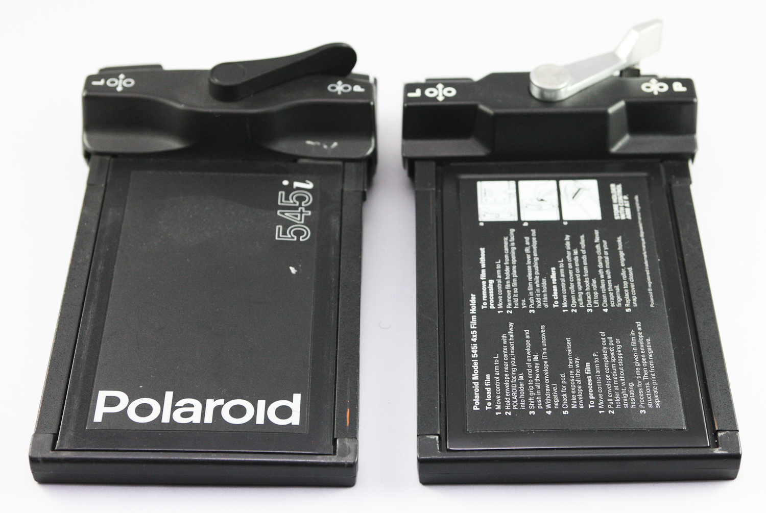 0400 Polaroid 5451 and 545